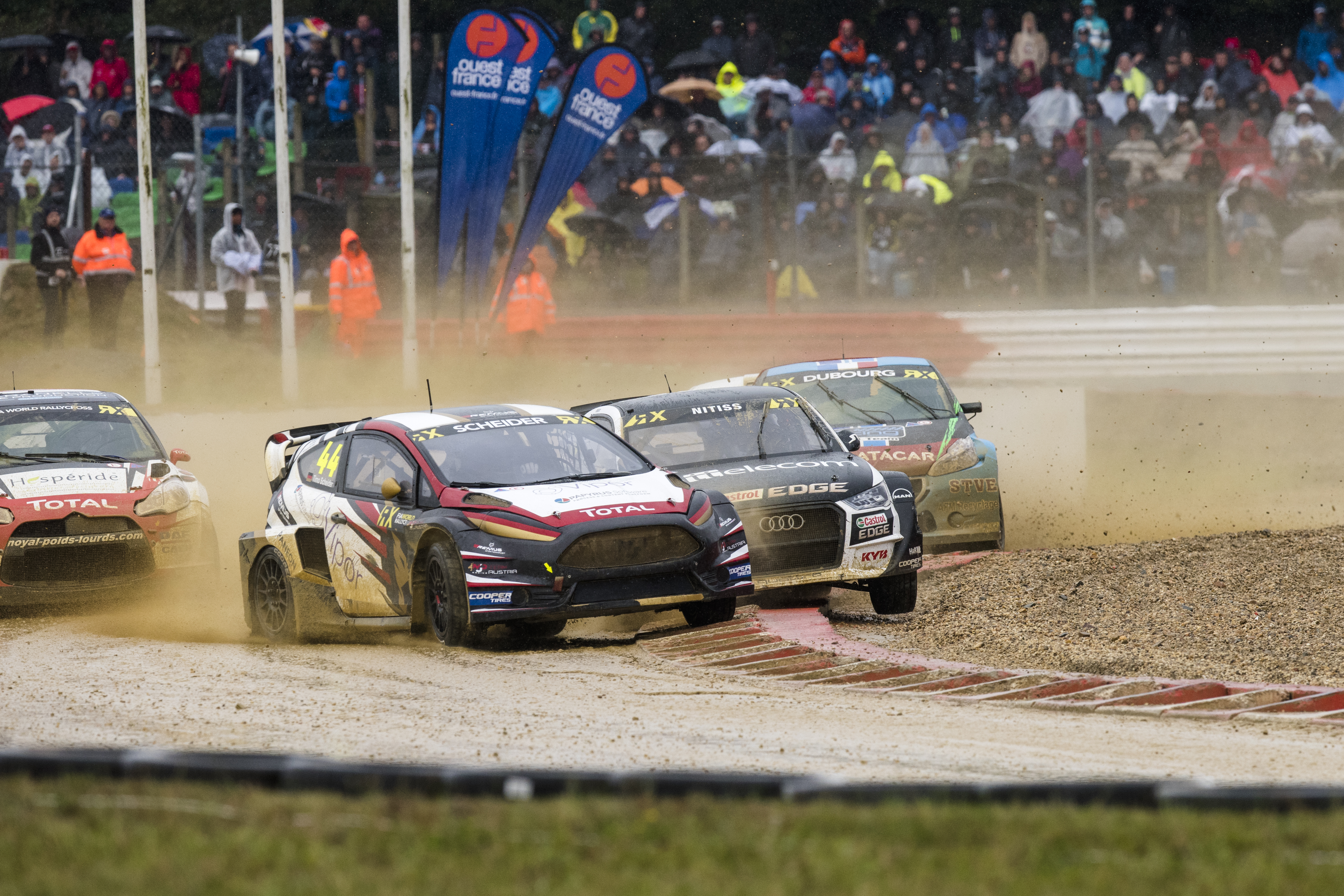 2017 FIA World Rallycross Championship // Round 09, Lohéac // Credit: EKS/Jaanus Ree